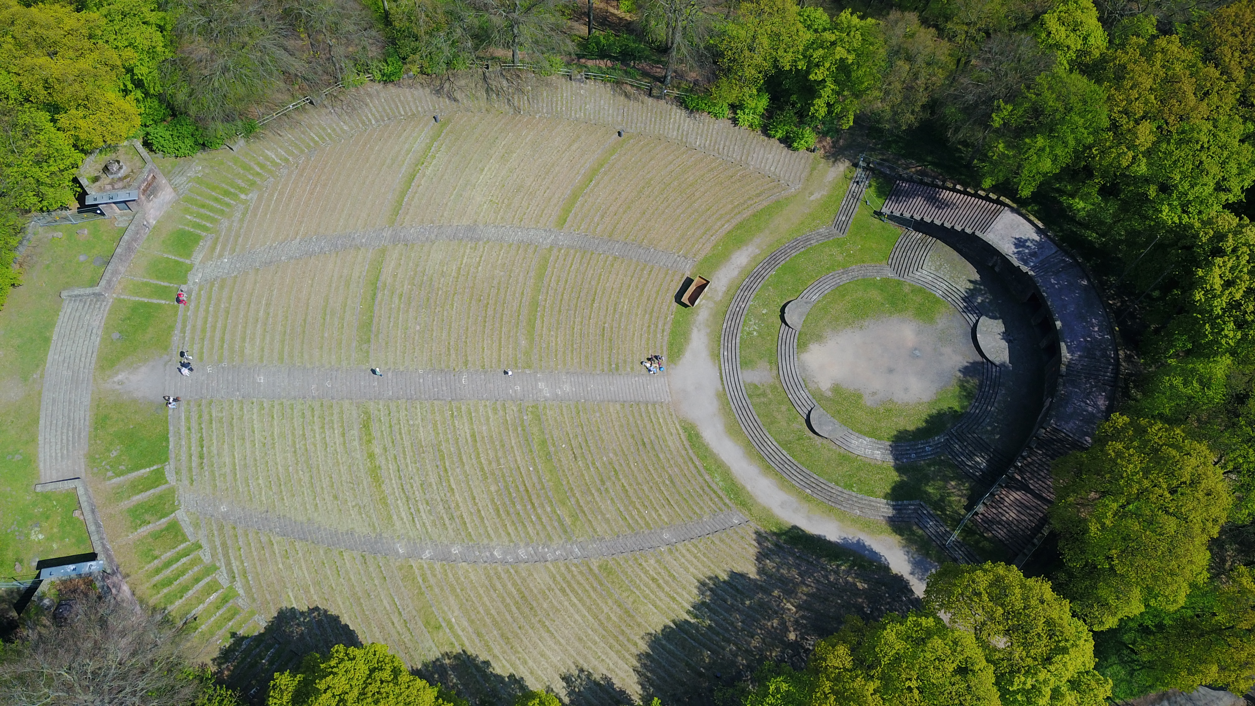 Heiligenberg Thingstätte Luftaufnahme